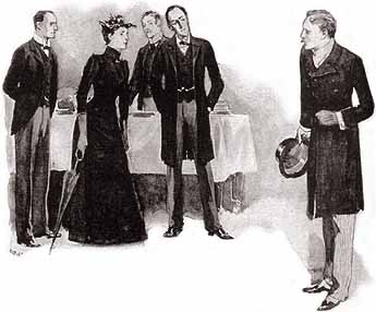 Illustration of "The Adventure of the Noble Bachelor", which appeared in The Strand Magazine in April, 1892. Original caption was "I WILL WISH YOU ALL A VERY GOOD NIGHT."